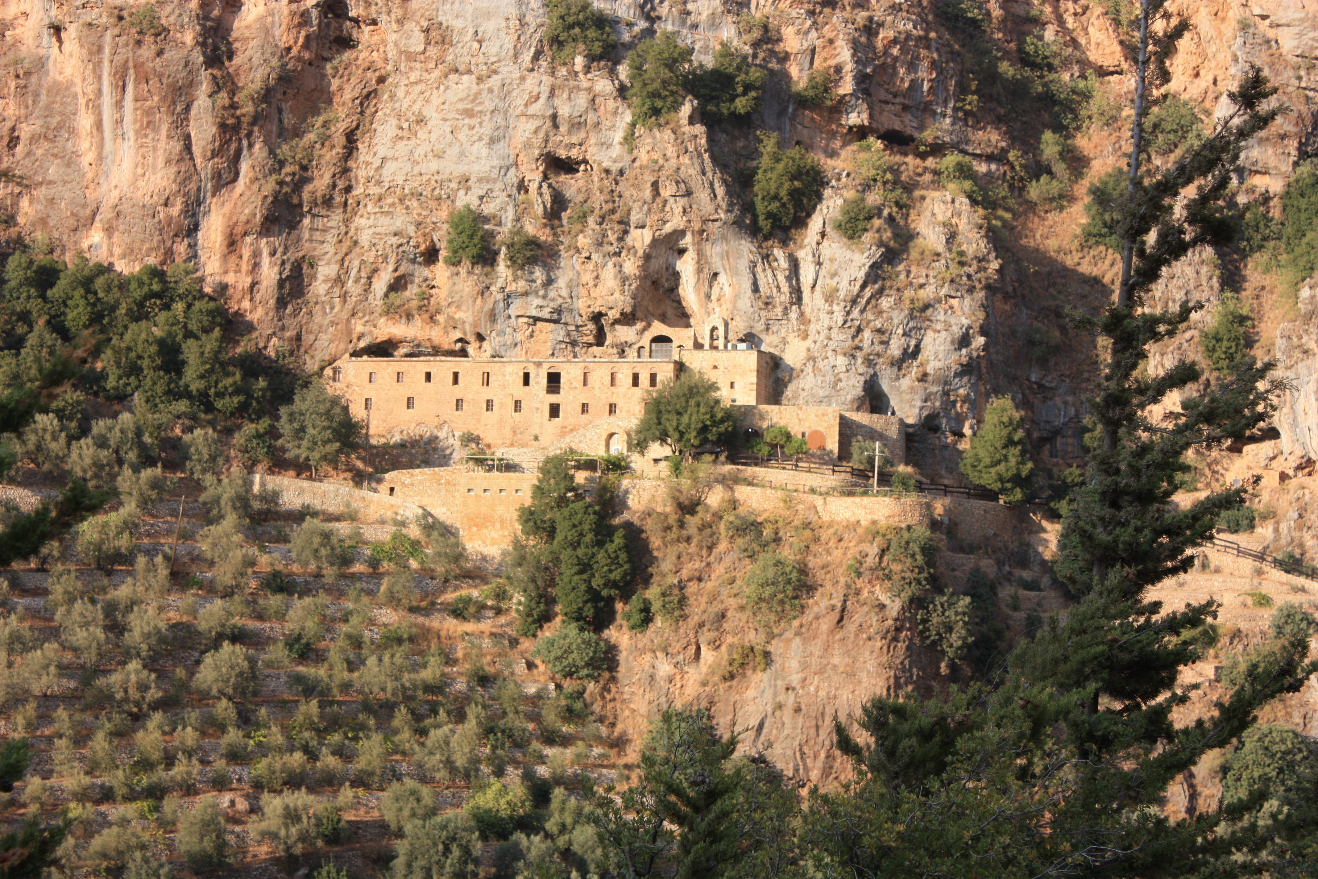 Qadisha, view on Deir Mar Elisha